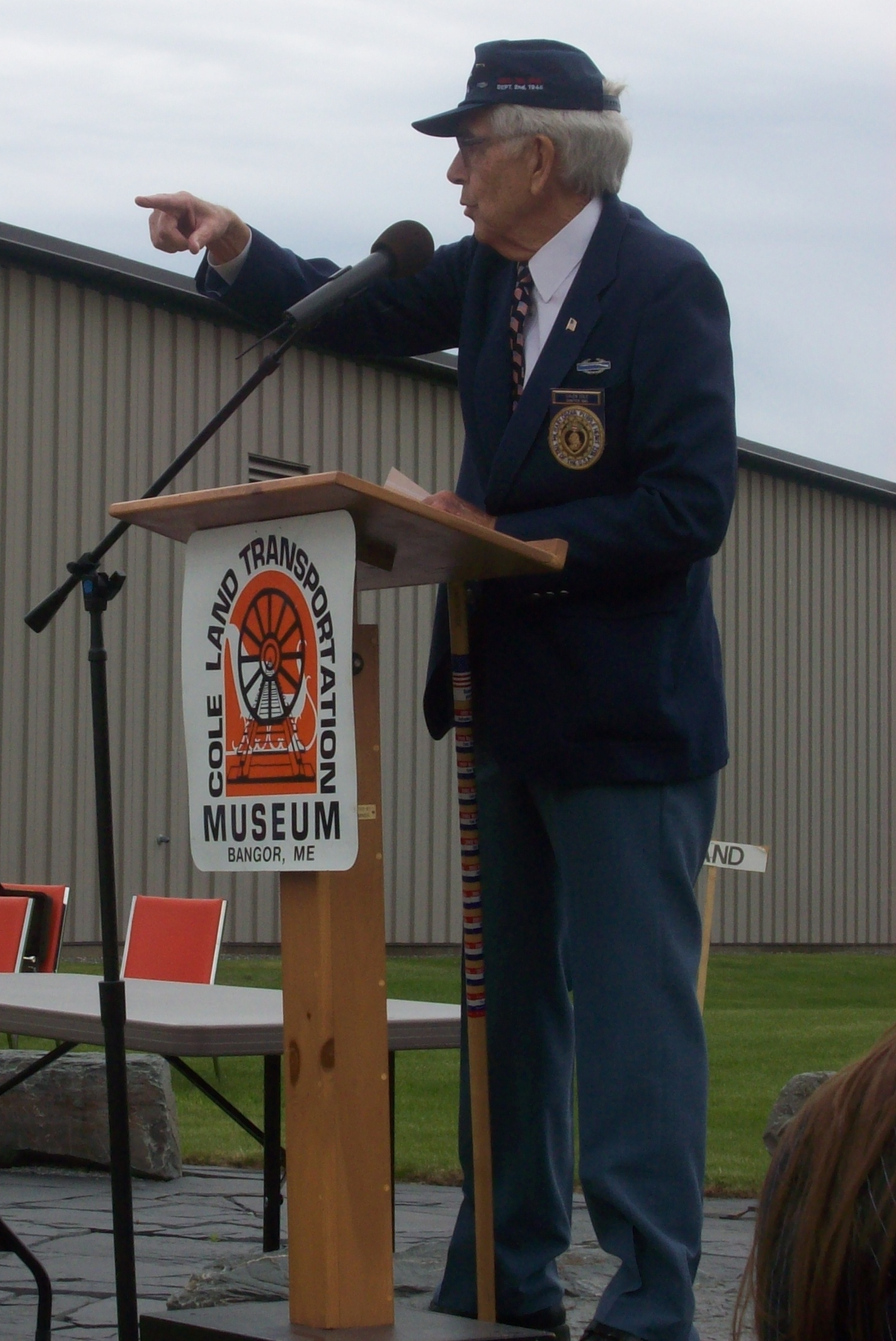 Galen Cole, founder of the Cole Land Transportation Museum in Bangor, Maine, and the Walking Sticks for Veterans program, in 2007. He's a minor local celebrity. Pictured giving a speech as part of a dedication ceremony for the Holden / Eddington / Clifton Veteran's Memorial.